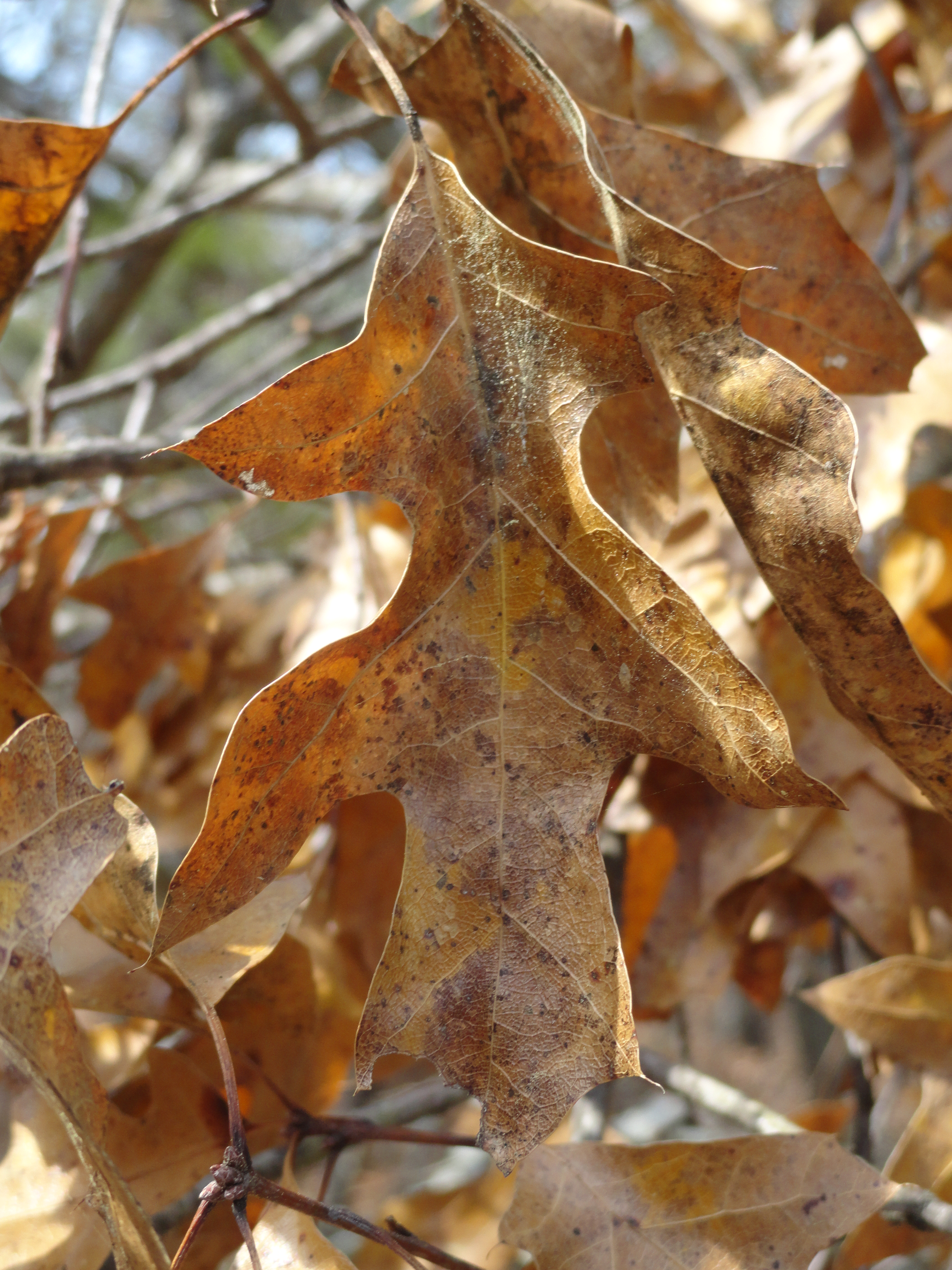 Quercus georgiana leaves leftover from winter in early spring, taken on the Walk Up Trail at Stone Mountain Park in Georgia, US